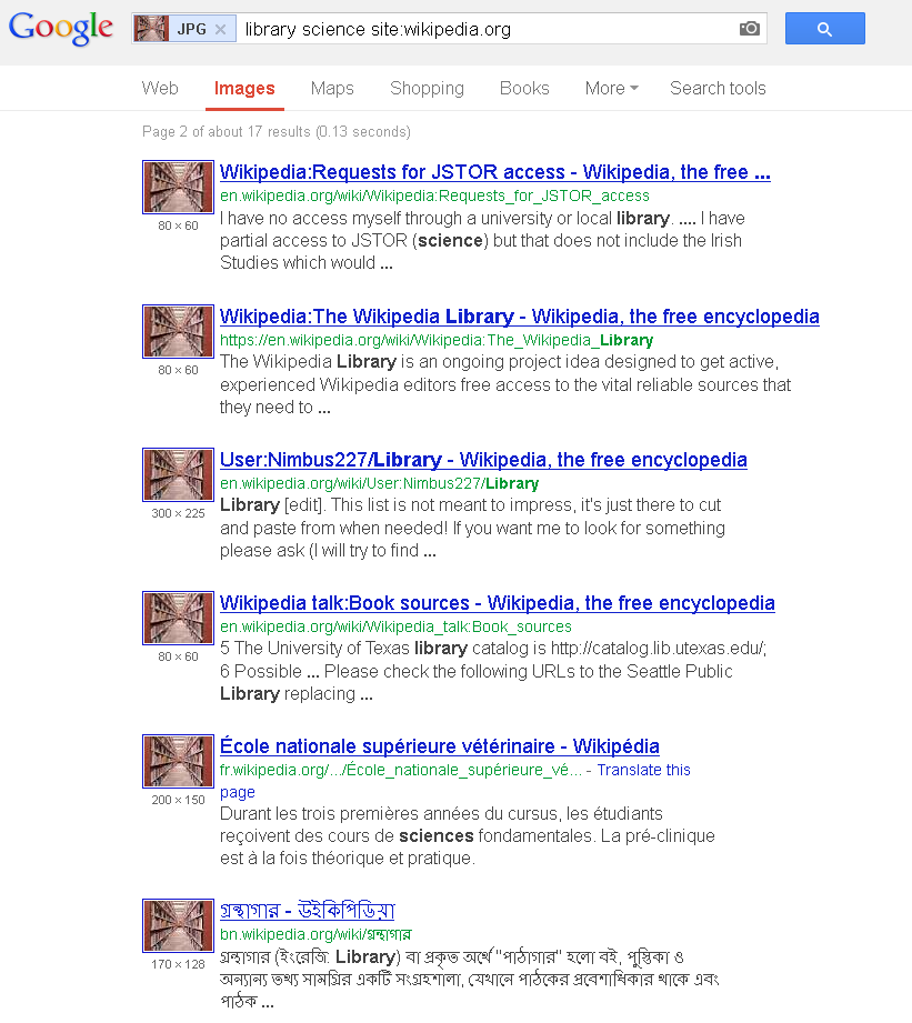 Google Image Search of . The copyright of the SteacieLibrary.jpg image is released into the public domain by Rayson Ho. The Google Logo only consists of simple geometric shapes and text and thus it does not meet the threshold of originality needed for copyright protection. The text in the results snippet does not meet the threshold of originality needed for copyright protection, and as they are all on Wikipedia, the full text is under a free license.